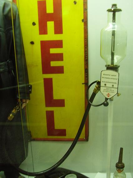 old Petrol pump at the Sinsheim Auto & Technik Museum (Sinsheim / Germany)